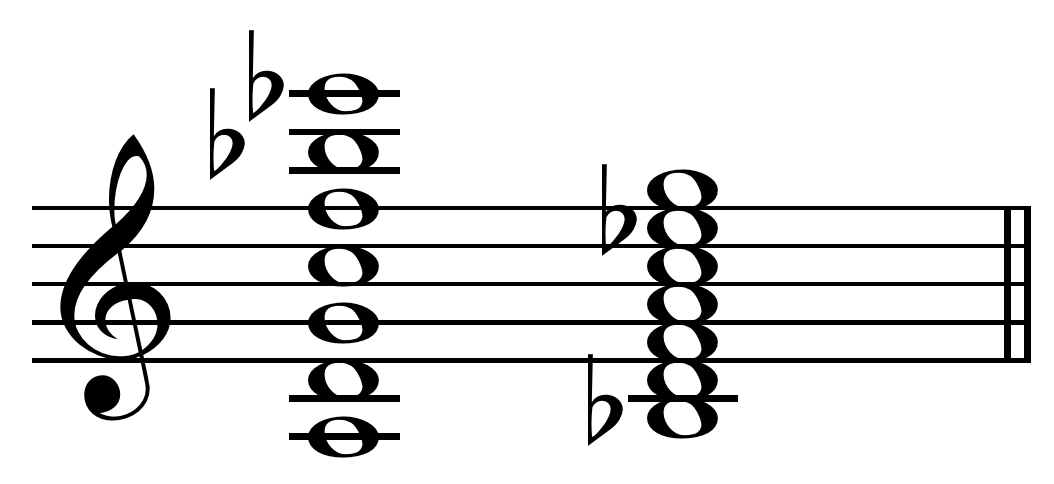 Quartal chord on A equals thirteenth chord on B♭, distinguished by the arrangement of chord factors. Created by Hyacinth (talk) 13:55, 13 October 2010 using Sibelius 5.